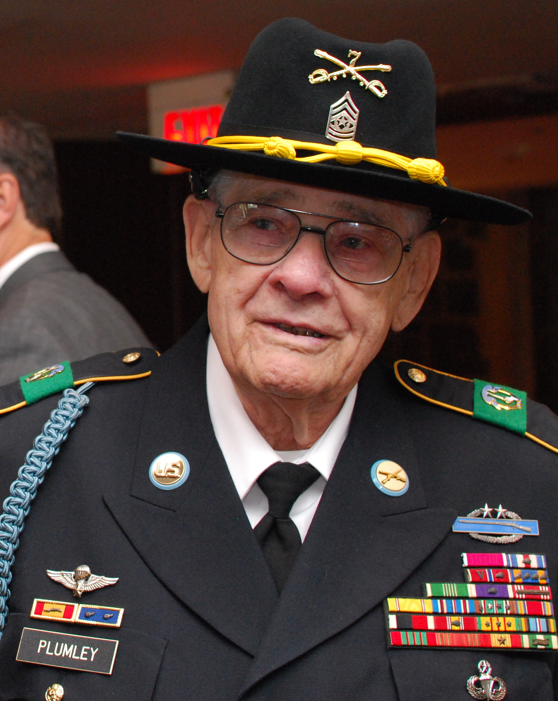 CSM(R) Basil L. Plumley at the United States Military Academy at West Point on 10 May 2010